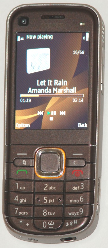 Nokia 6720 classic, chestnut brown, default display theme, showing music player.